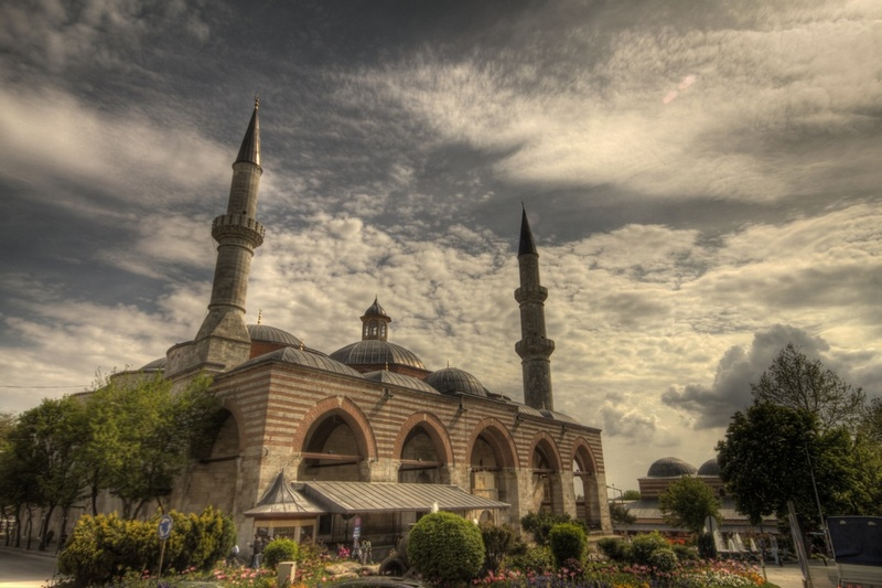 Turkey Edirne Old Mosque (Edirne Eski Camii)